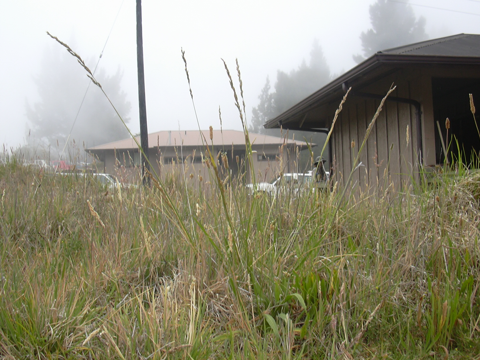 Festuca arundinacea (habit). Location: Maui, Haleakala National Park